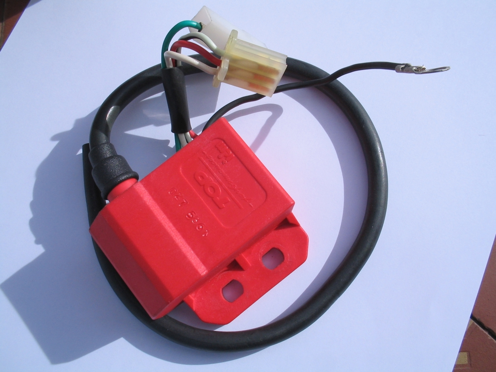 analog CDI ignition with pick-up input and ignition coil integrated, replacement aftermarket racing type